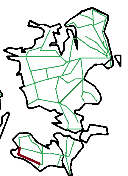 Map of railways on Zealand, Lolland and Falster in Denmark with the private railway Nakskov-Rødby Jernbane in brown.